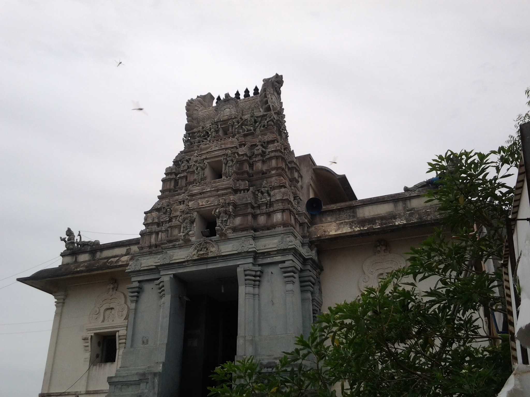 This is a place of worship in Tamilnadu, Chennai, Chromepet. Though the place was identified by Kanchi Sankaracharya in Dec 1958, The temple and its steps were completed in 1977.